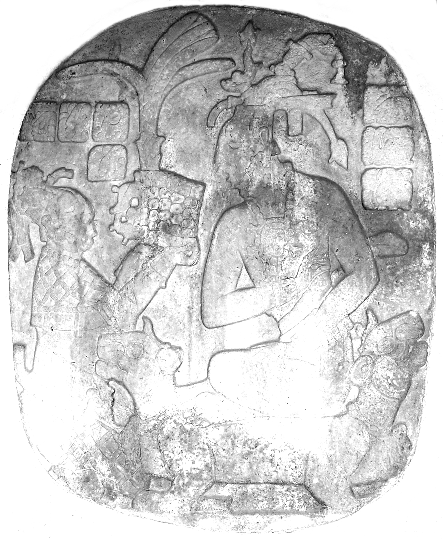 Oval Palace Tablet depicting Lady Sak K'uk' presenting a crown to her son K'inich Janaab' Pakal I, on the day he assumed the kingship (Maya site of Palenque, Mexico).